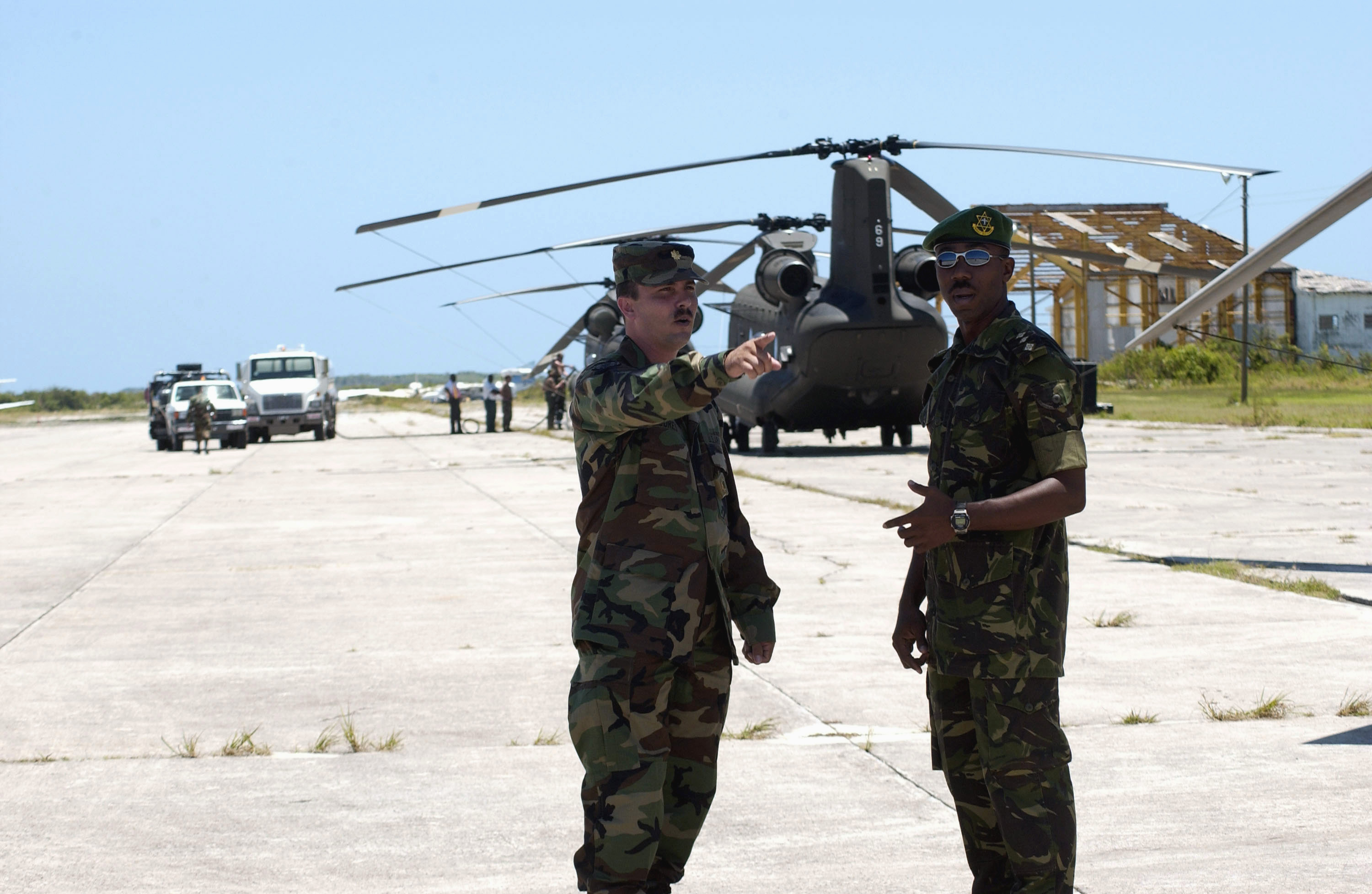 US Army (USA) Major (MAJ) Javier Bures, US Army South (USARSO), a logistician from Puerto Rico, left and Captain (CPT) Roger McLean with the Trinidad and Tobago Defense Force, brief one another at the Bird International Airport, on the island of Antigua.